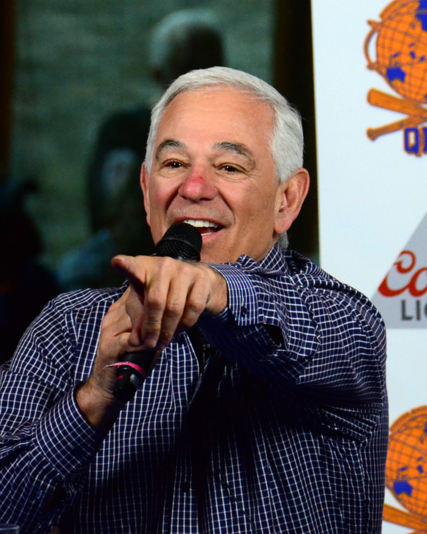 Bobby Valentine, January 28, 2017.